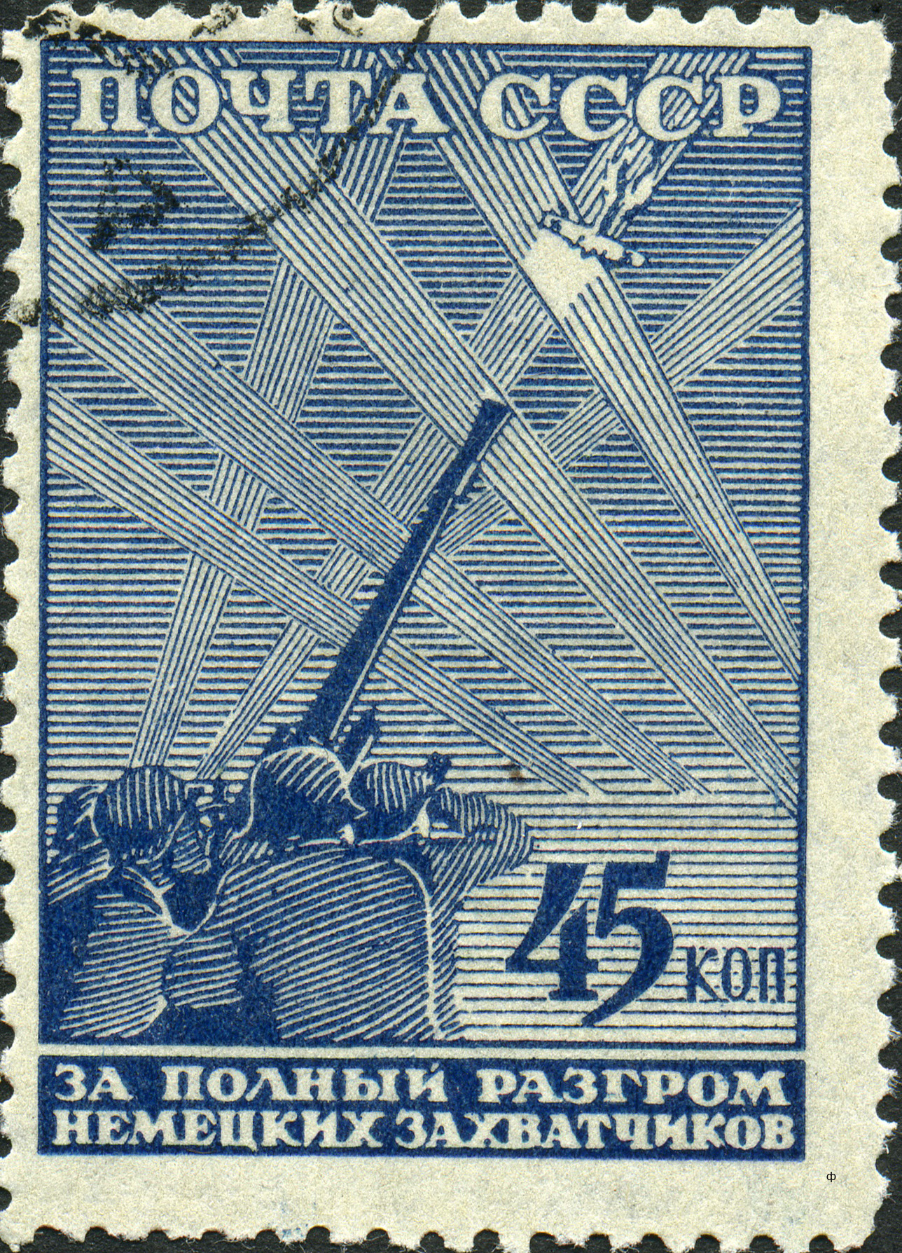 For the complete rout of the German invaders. Stamp of the Soviet Union, Great Patriotic War, 1942, CPA 840.